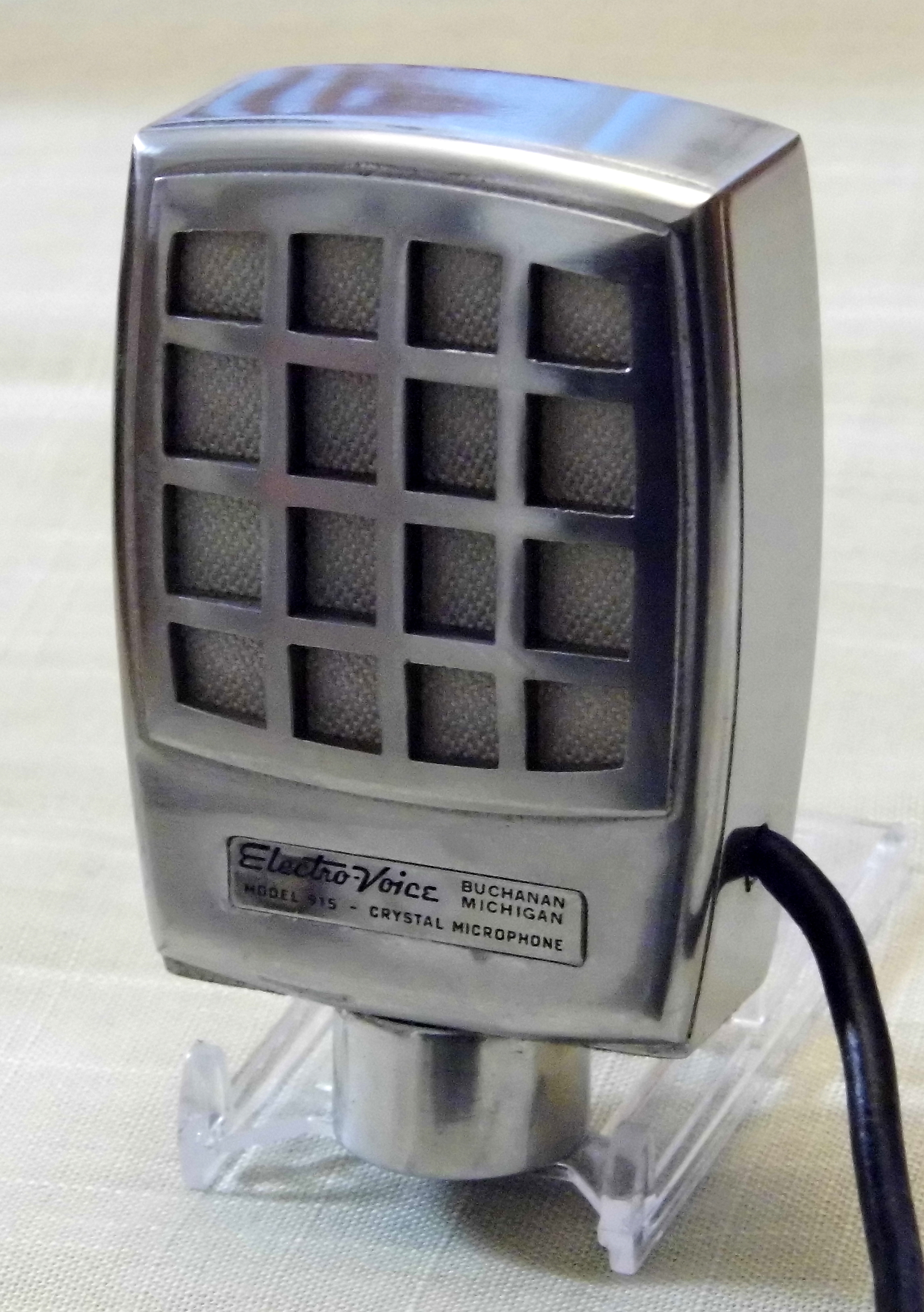 Vintage Electro-Voice Century Crystal Microphone, Model 915, Push-To-Talk, Circa 1950